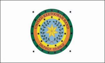 Flag of the United Keetoowah Band of Cherokee Indians Original graphics file for the official flag and seal of the United Keetoowah Band of Cherokee Indians of Oklahoma were created by Dr. James Harvey May. The seal and the flag were designed by Jim May, working with the United Keetoowah Band Tribal Council and getting their approval of all changes.